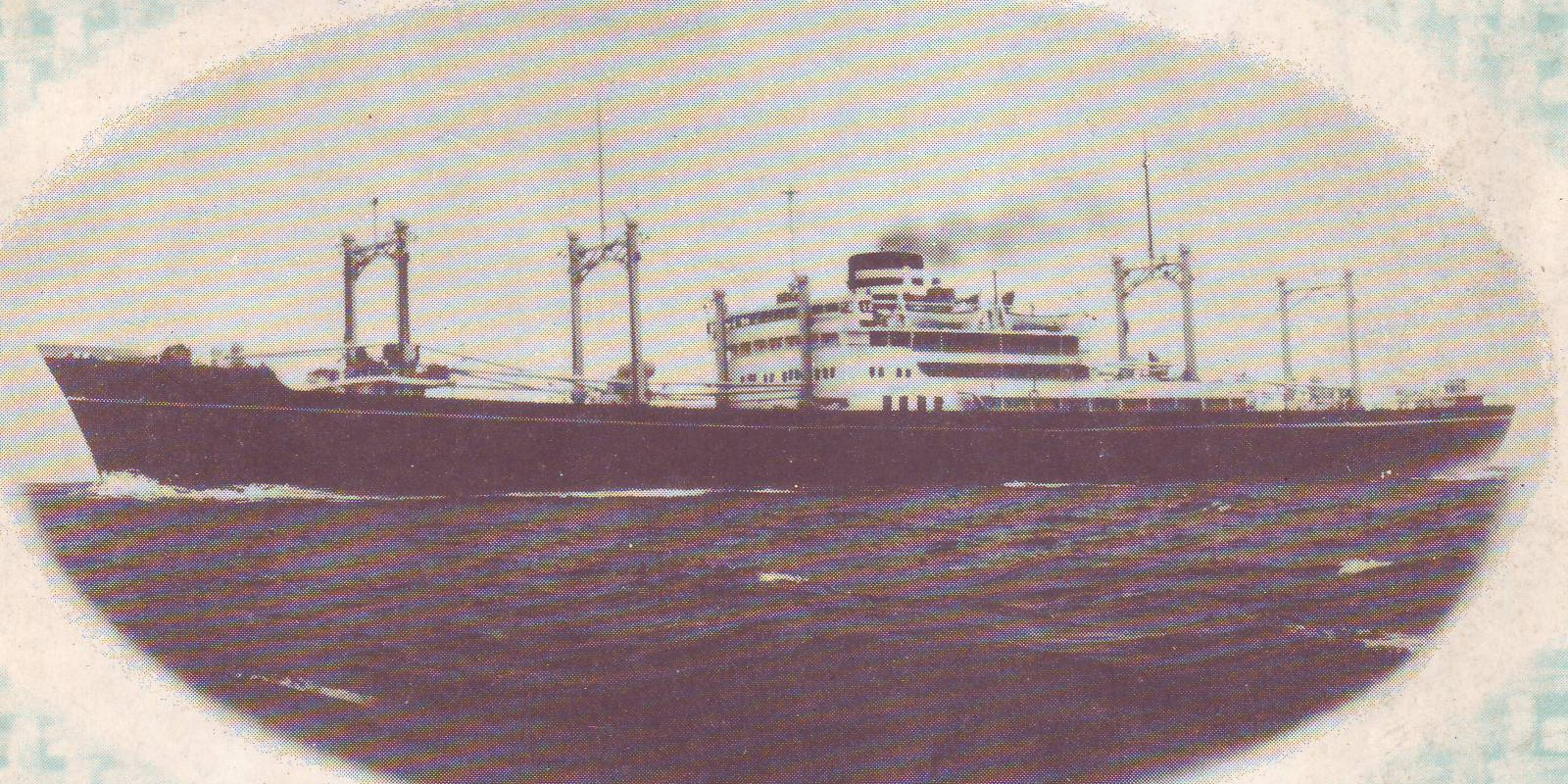 O.S.K. Line "Santos Maru (1952)"